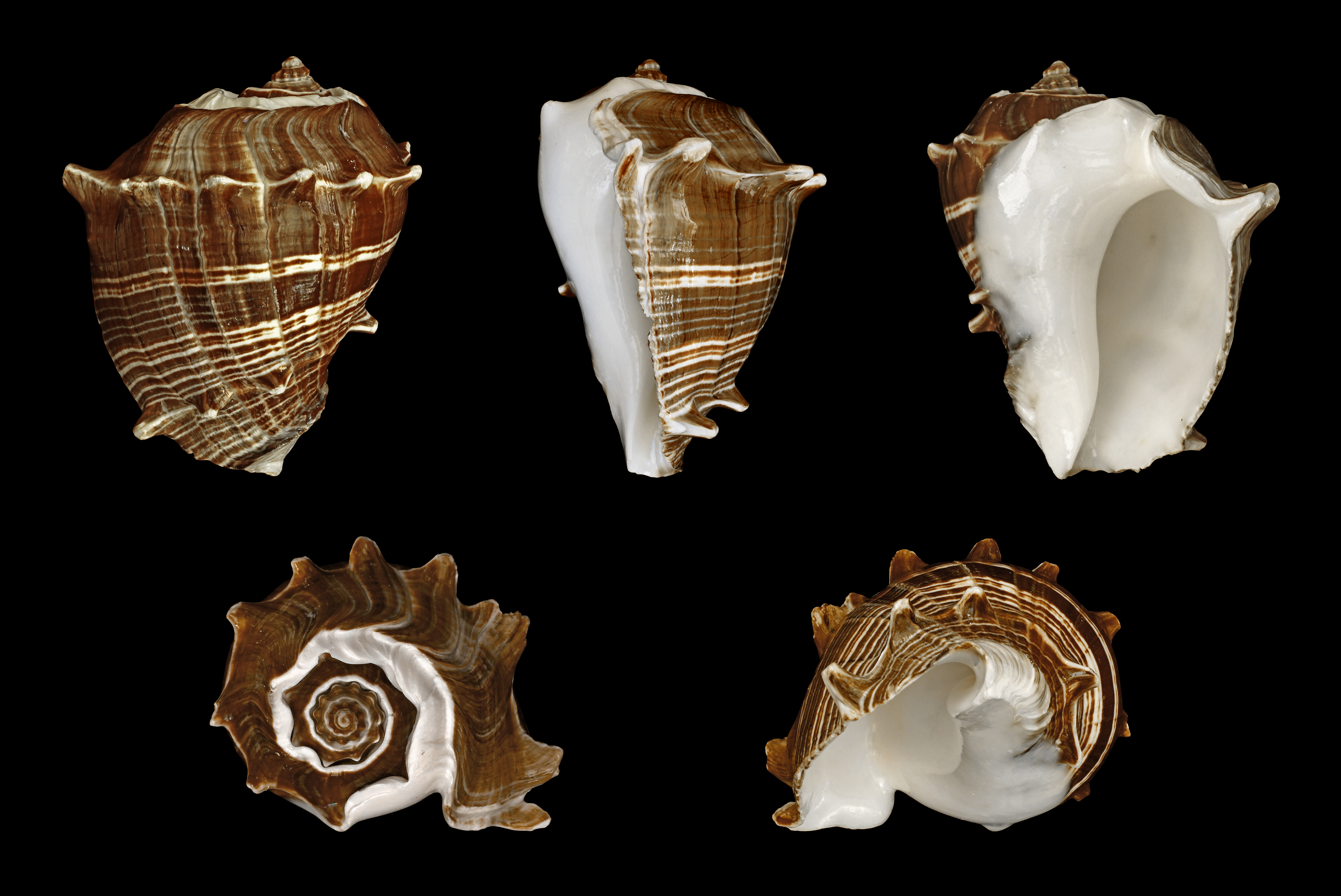 West Indian Crown Conch, Length 7.9 cm; Originating from the Caribbean Sea; Shell of own collection, therefore not geocoded. Dorsal, lateral (right side), ventral, back, and front view.